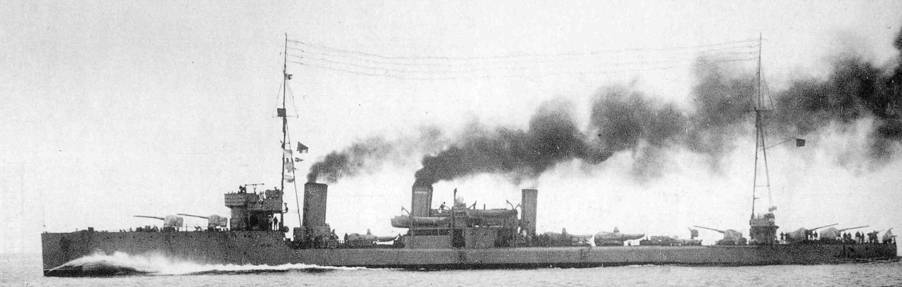 Soviet destroyer Kalinin.